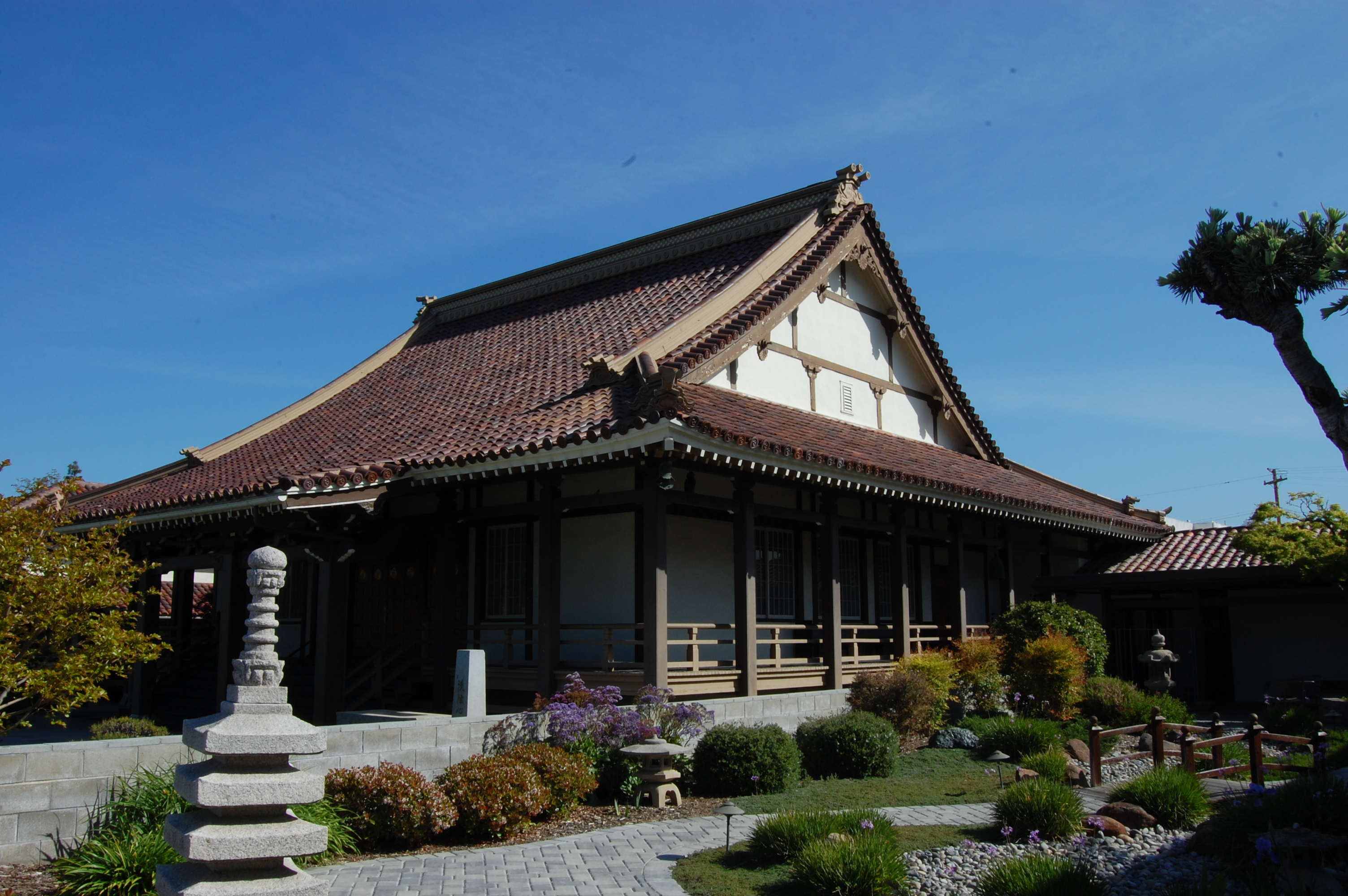 Betsuin Buddhist Church. 640 North Fifth Street. Built in 1937. San Jose, California, USA